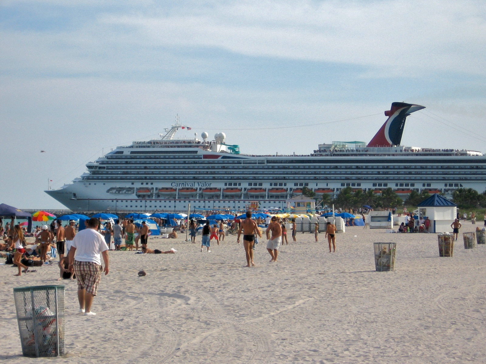 Carnival Valor docked in Miami.